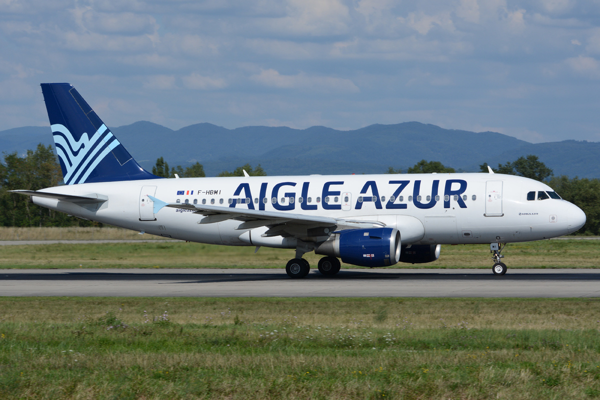 Aigle Azur Airbus A319-114 at Basle-Mulhouse